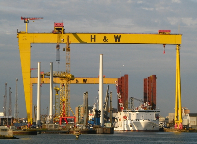 Two unusual ships in Belfast. A slightly closer view of 958690. Two specialist ships in the Musgrave Channel in Belfast docks, seen below the towering cranes 'Samson' and 'Goliath' in the Harland and Wolff building dock. The large white ship on the right is the 'Resolution' (see also 3622987 ). The ship is used in the construction of offshore windfarms and was in Belfast to collect turbine foundations from Harland and Wolff for an offshore windfarm in the Solway Firth . Its unusual shape comes from the six 130m legs which, once on site, jacks the vessel out of the water and provides a stable working platform to construct windfarms at sea. for some technical info on the Resolution. Just to the left of 'Resolution' and partially hidden is the 'Sea Energy' (see also 3623022 ). This is another offshore construction vessel and will be used to construct the middle and top rotor sections of the turbines in the same offshore windfarm. Some related images to this project can be seen at